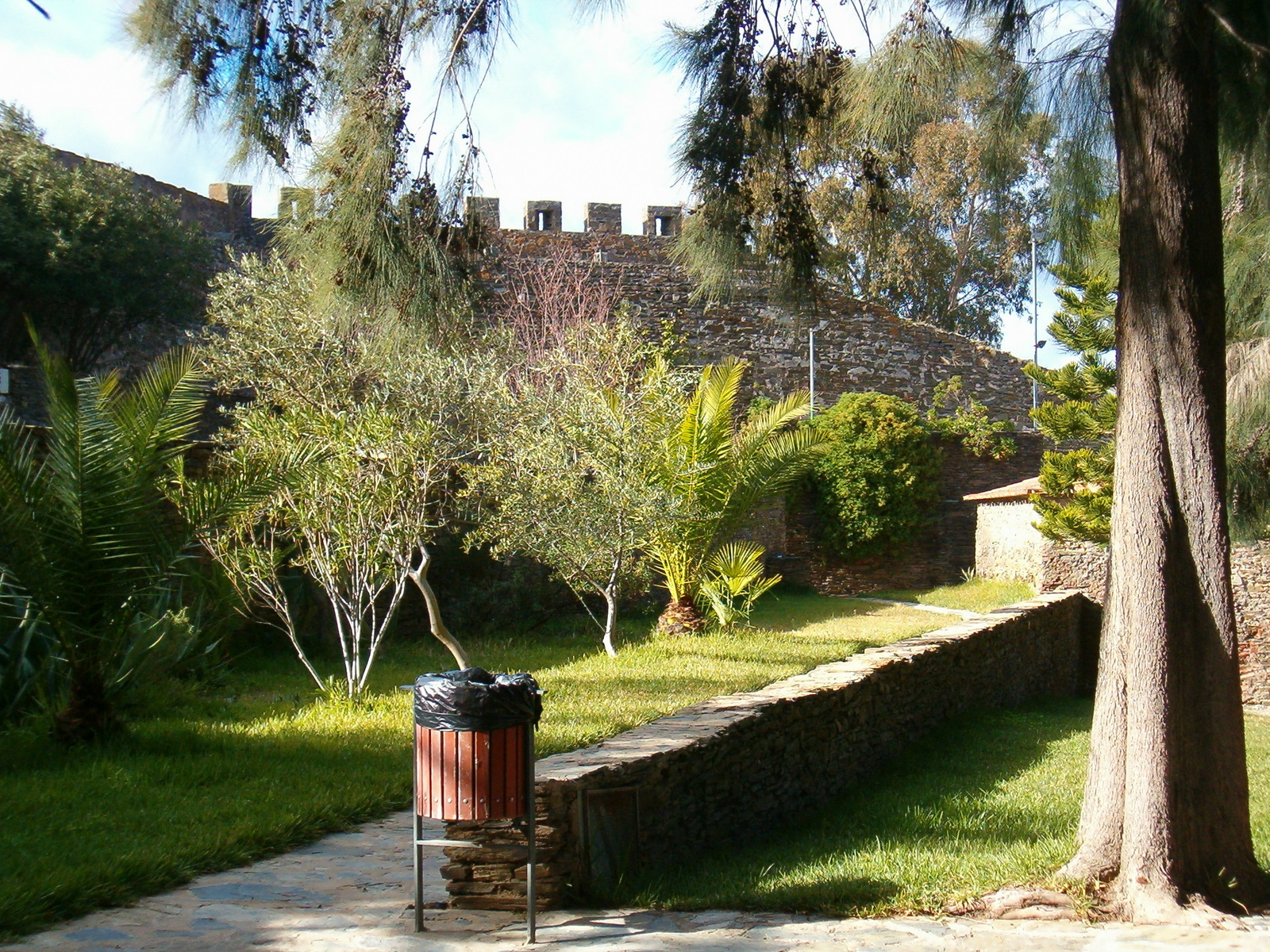 Alcoutim